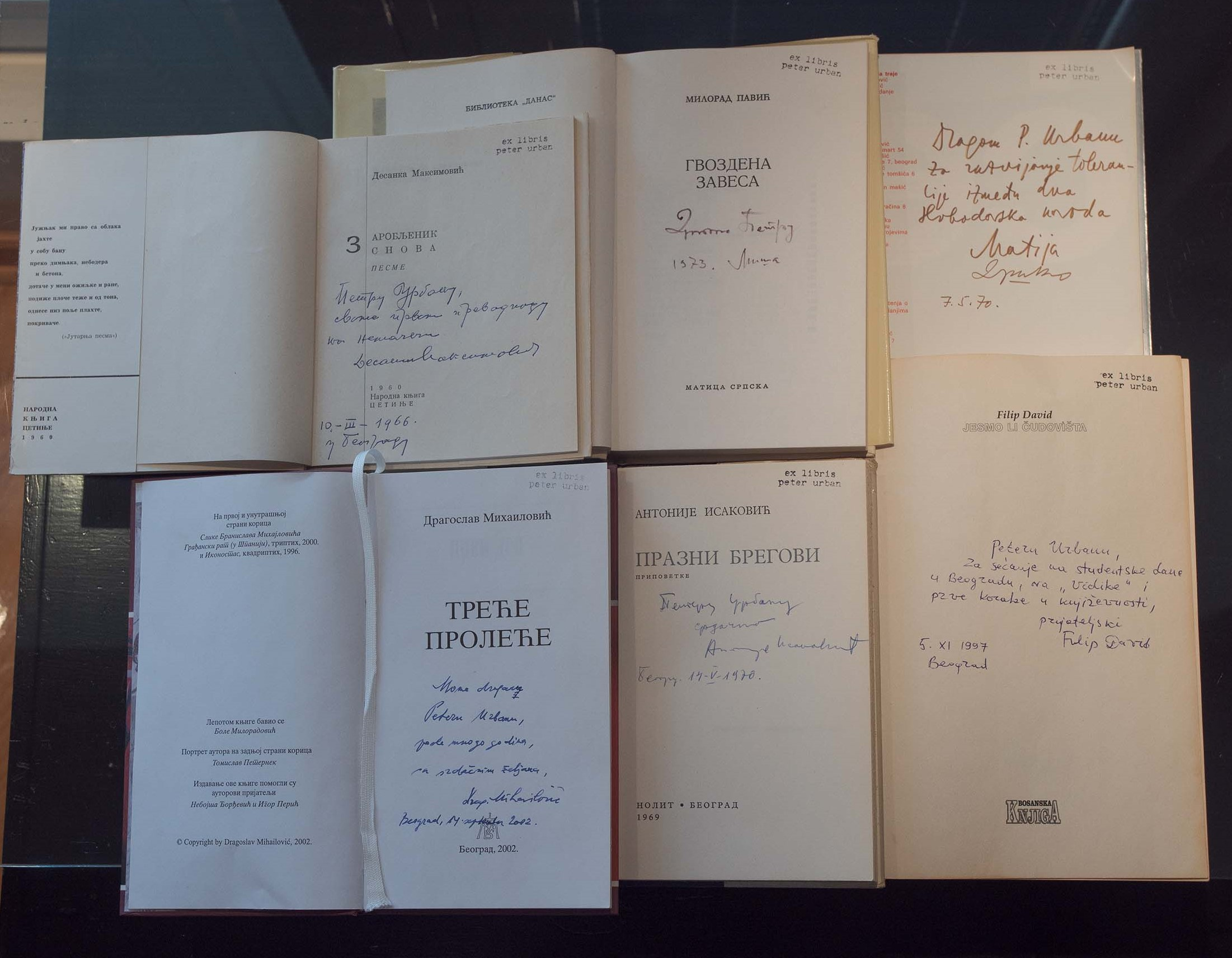 Book inscriptions dedicated to Peter Urban, written by many Serbian authors; Books can be found in the Society for Culture, Art and International Cooperation Adligat in Belgrade, Serbia. Српски (ћирилица): Посвете Петеру Урбану написане од стране бројних српских аутора; Књиге се налазе у Удружењу за културу, уметност и међународну сарадњу Адлигат у Београду.